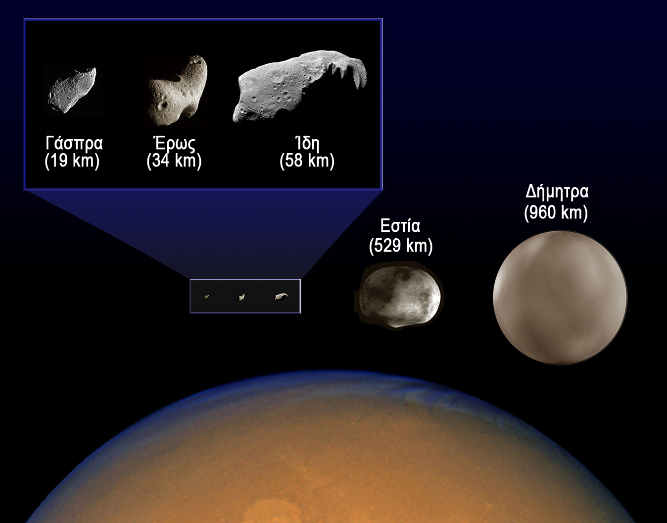 Comparison of the sizes of asteroids (1) Ceres, (4) Vesta, (243) Ida, (433) Eros, and (951) Gaspra, also Mars.